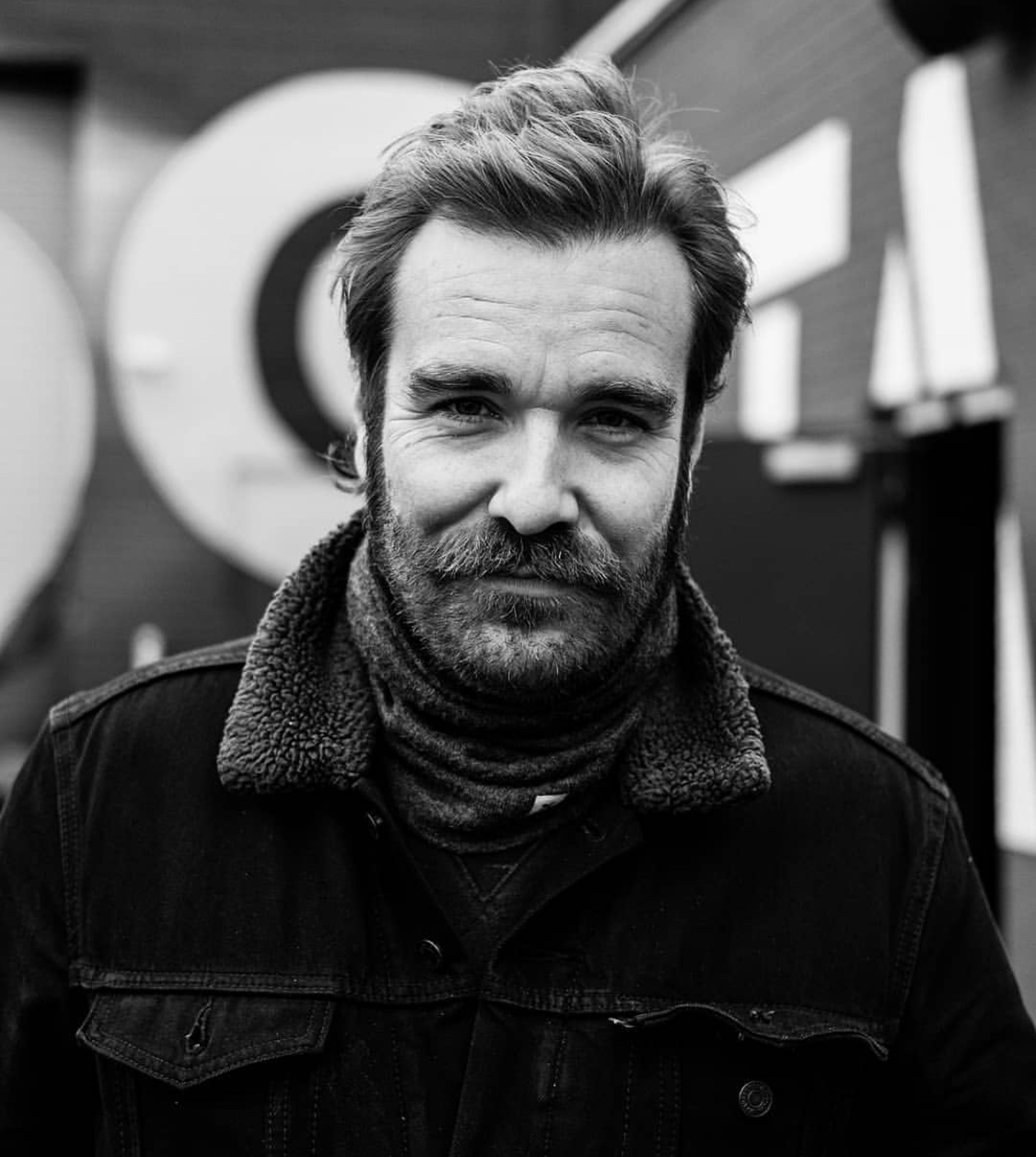 Scott Terry photographed outside the Fairfield Theater Company in Connecticut